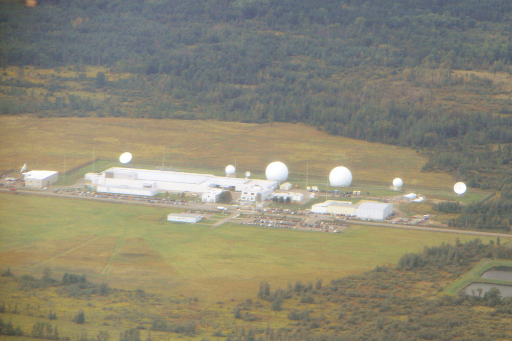 CFS Leitrim, Ottawa, Ontario, Canada. See also: File:CFS Leitrim.JPG